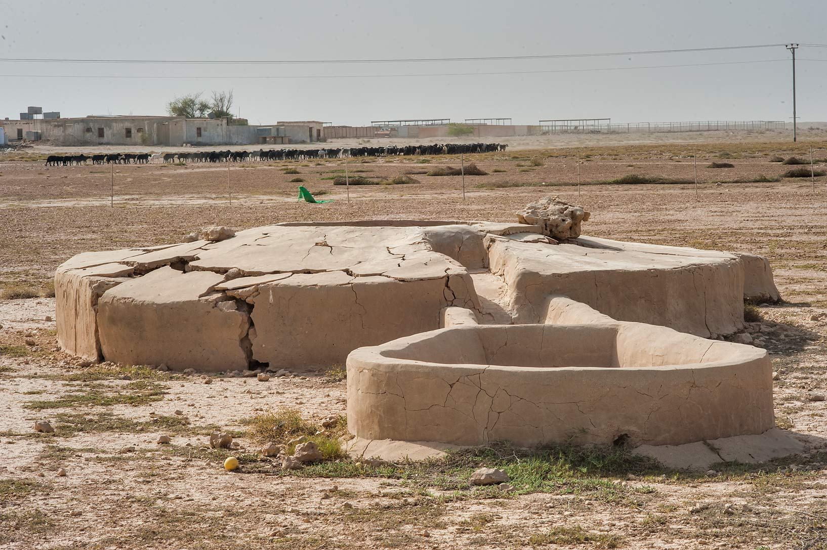 The main Ain Al Nuaman Well, northwest Qatar.